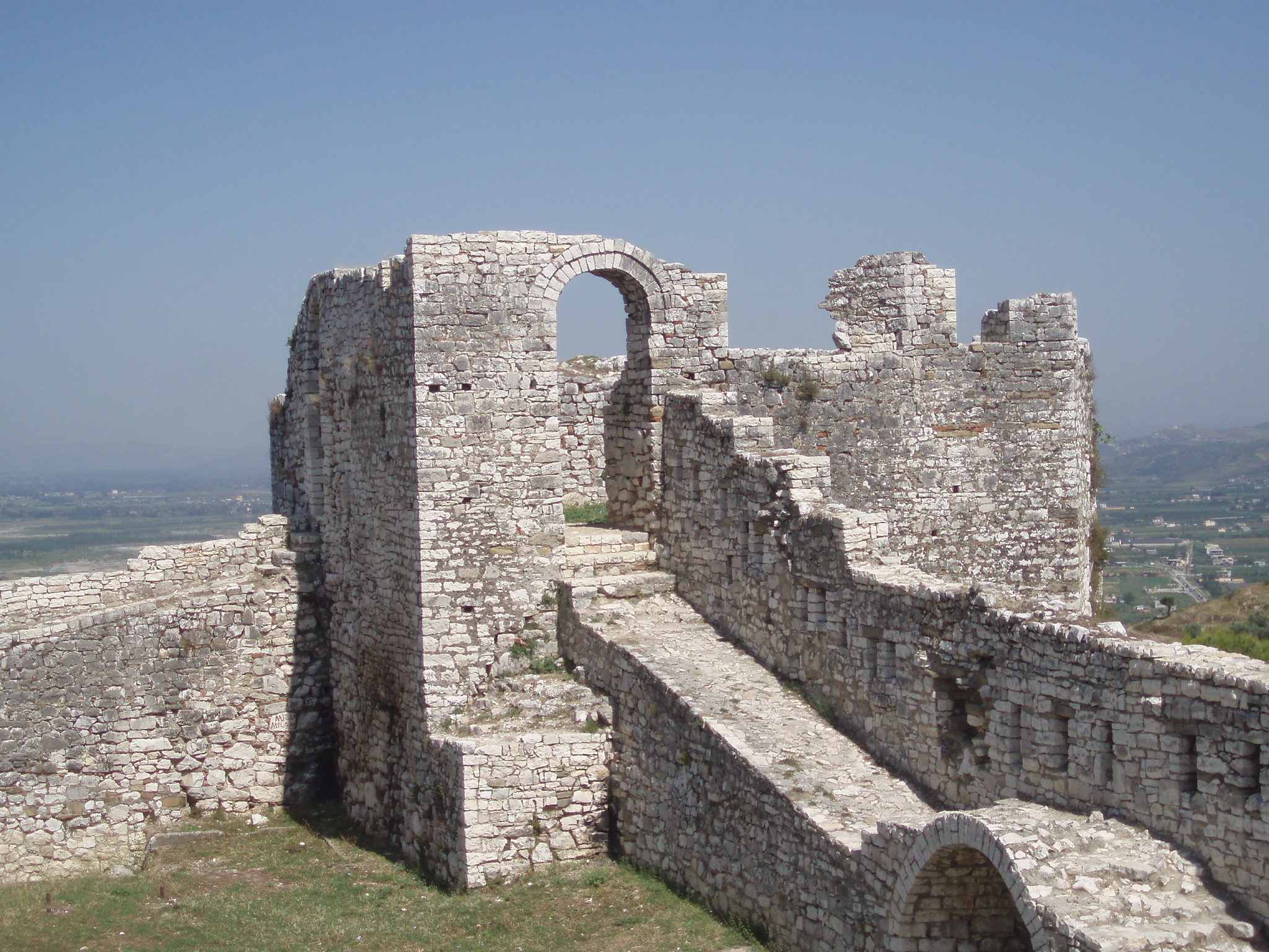 the ruins of a tower in Berat Castle, Albania